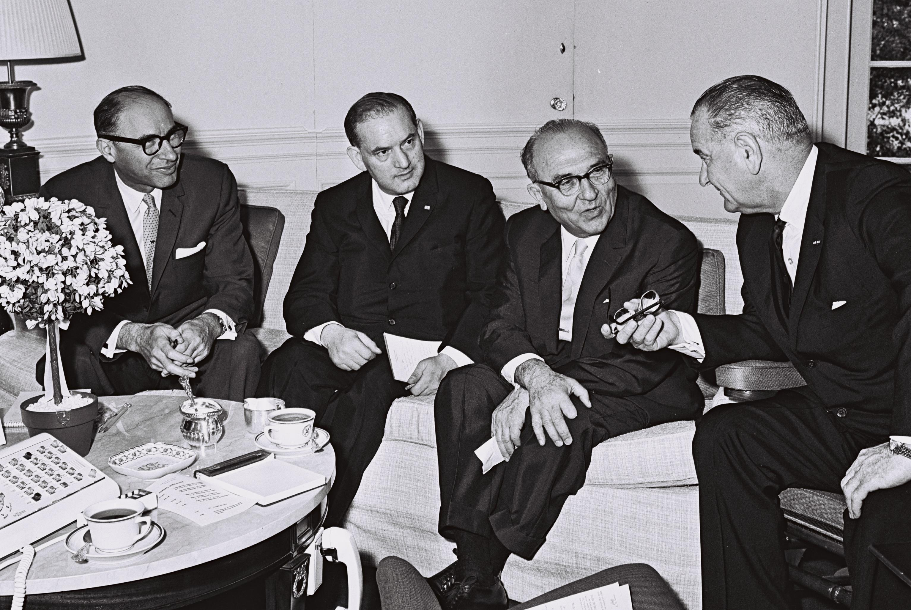 P.M. ESHKOL IN CONVERSATION WITH PRES. LYNDON JOHNSON AT THE WHITE HOUSE IN WASHINGTON. LEFT, ISRAEL AMB. A.HARMAN & PRES.JOHNSON'S ADVISER ON JEWISH AFFAIRS FELDMAN.